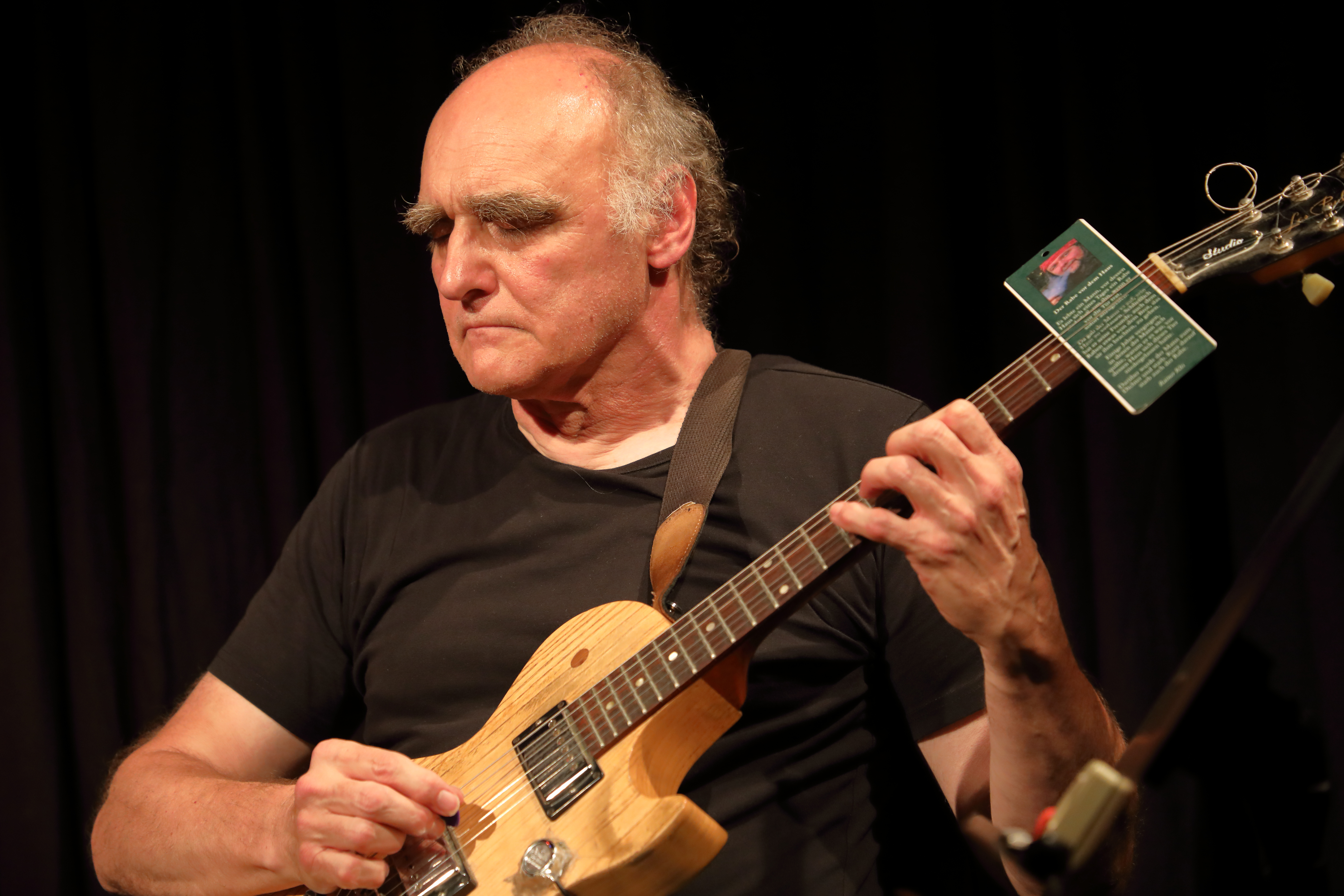 Eugene Chadbourne and Joe Sachse in concert at Club W71 Weikersheim, september 2019.